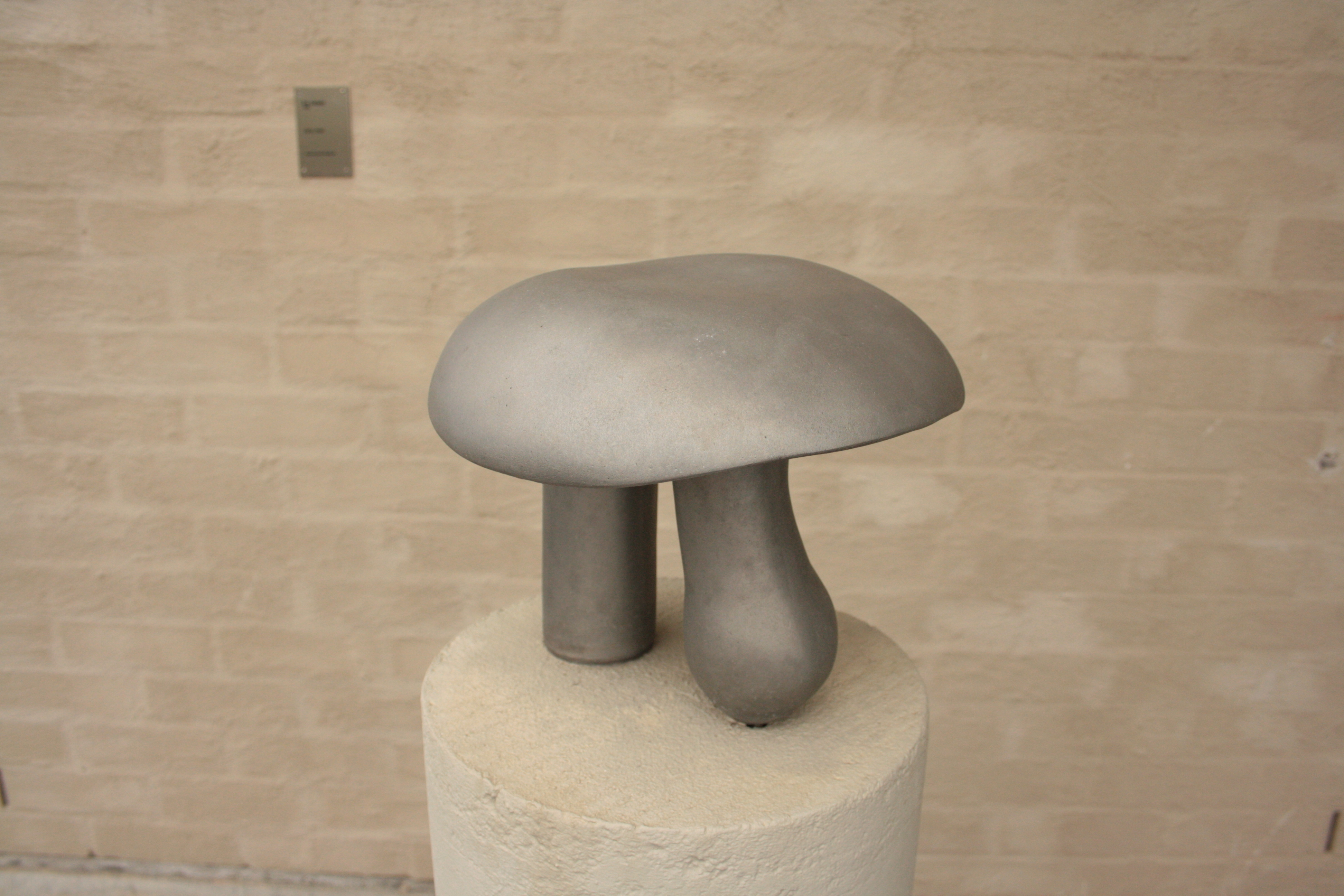 "3D π" by Eva Löfdahl, Umeå University campus